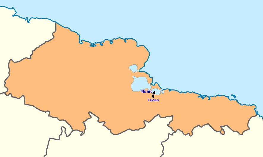 A locator map of the town of Nicaro-Levisa (shown in black) within the Province of Holguín, Cuba.